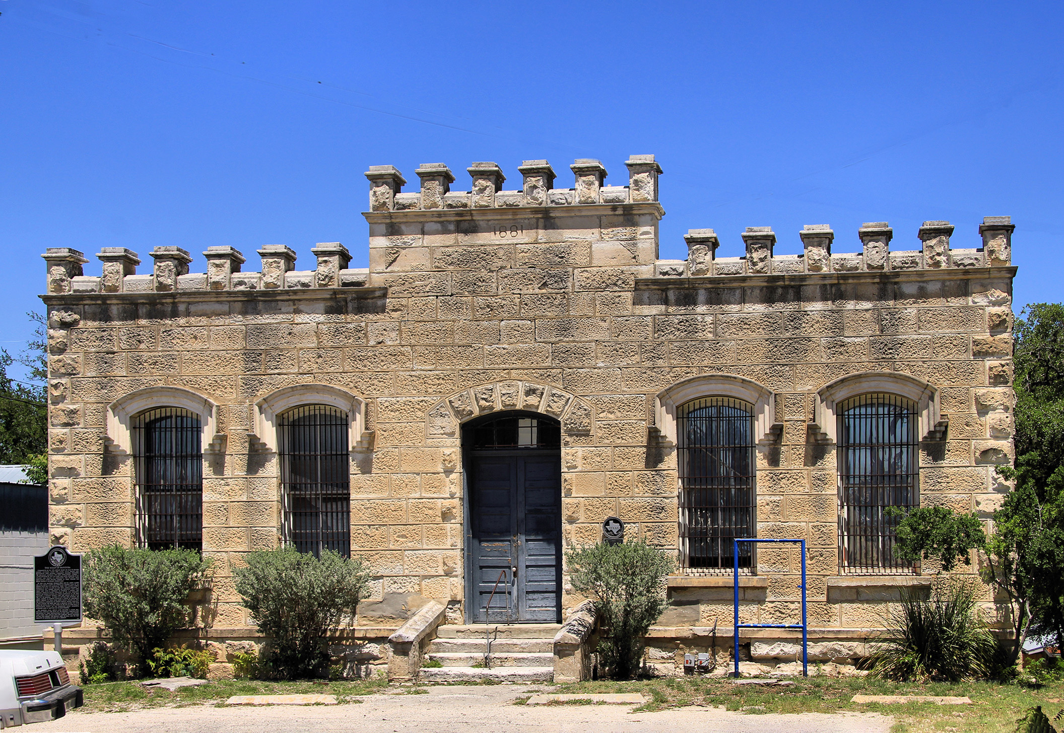 The former Bandera County Jail in Bandera, Texas, United States was built in 1881 and designated a Recorded Texas Historic Landmark in 1965.